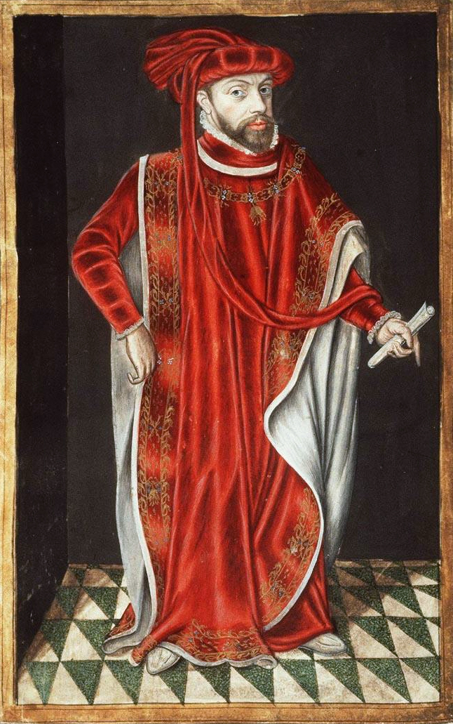 Philip II, king of Spain (1527-1598). Contents: Statutes and armorial of the Order of the Golden Fleece Place of origin, date: Southern Netherlands; 1561. Added section (ff. 67-88) and miniatures: Southern Netherlands; 1601 Material: Paper (and vellum), ff. 88, 283x189 (245x155; after f. 67: 245x145/150) mm, several calligraphic scripts, Binding: 18th-century brown leather; gilt; with coat of arms of Stadholder William V Decoration: 93 paper pages with coats of arms painted over woodcut outlines Added: 3 full-page miniatures on vellum Provenance: Acquired c. 1601 by Philip William (1554-1618), the oldest son of Prince William of Orange, who was received in the Order of the Golden Fleece in 1598; by descent to the Princes of Orange-Nassau, the later Stadholders, at The Hague; transfered in 1798 to the then newly-erected National Library (now: Koninklijke Bibliotheek) Annotation: 3 leaves with miniatures lost before f. 17 (Charles the Bold), f. 22a (Maximilian of Austria), f. 37 (Charles V)